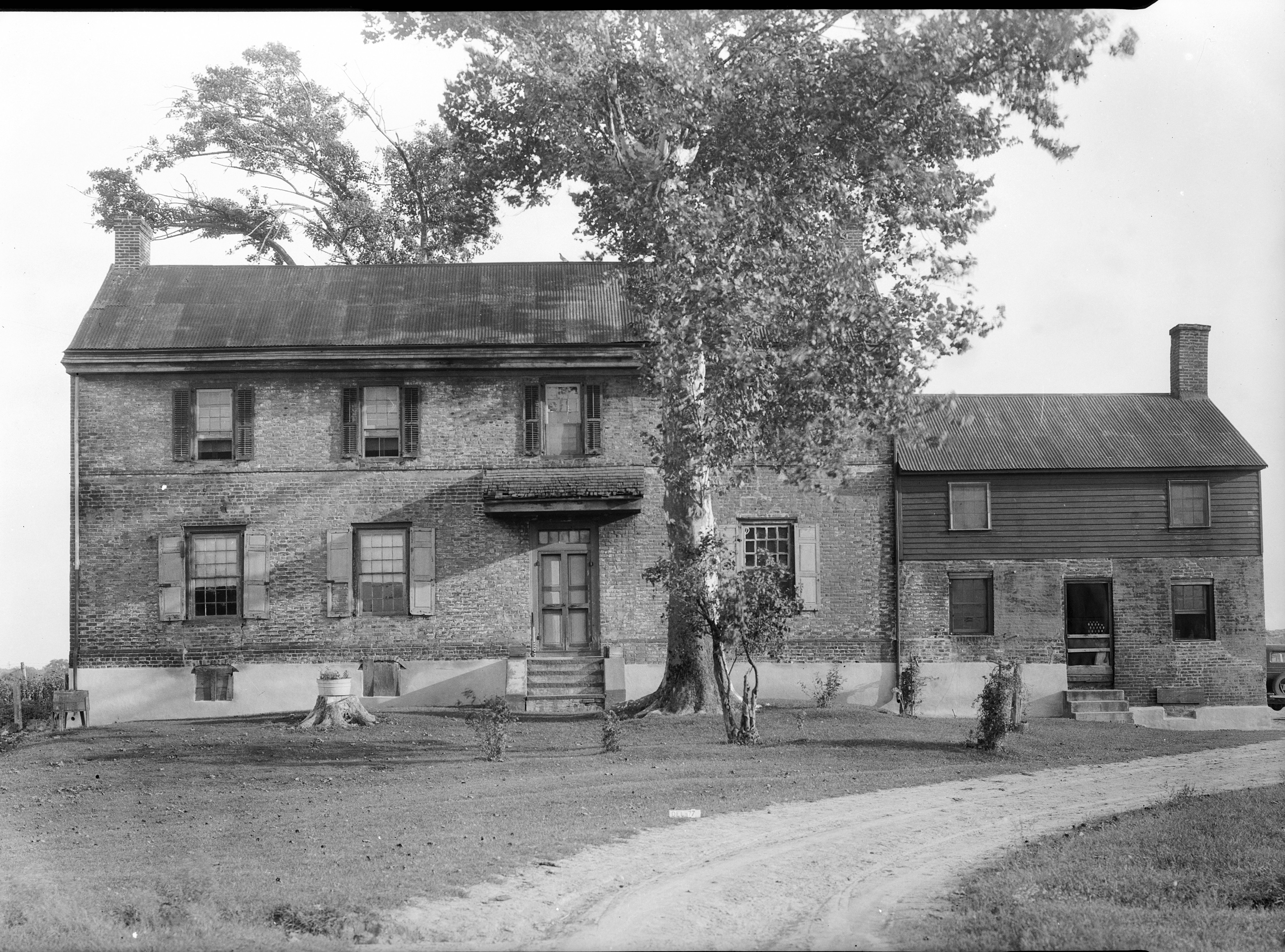 Historic American Buildings Survey W. S. Stewart, Photographer Oct. 7, 1936 WEST ELEVATION - Huguenot House, Route 9, Taylors Corner, New Castle County, DE